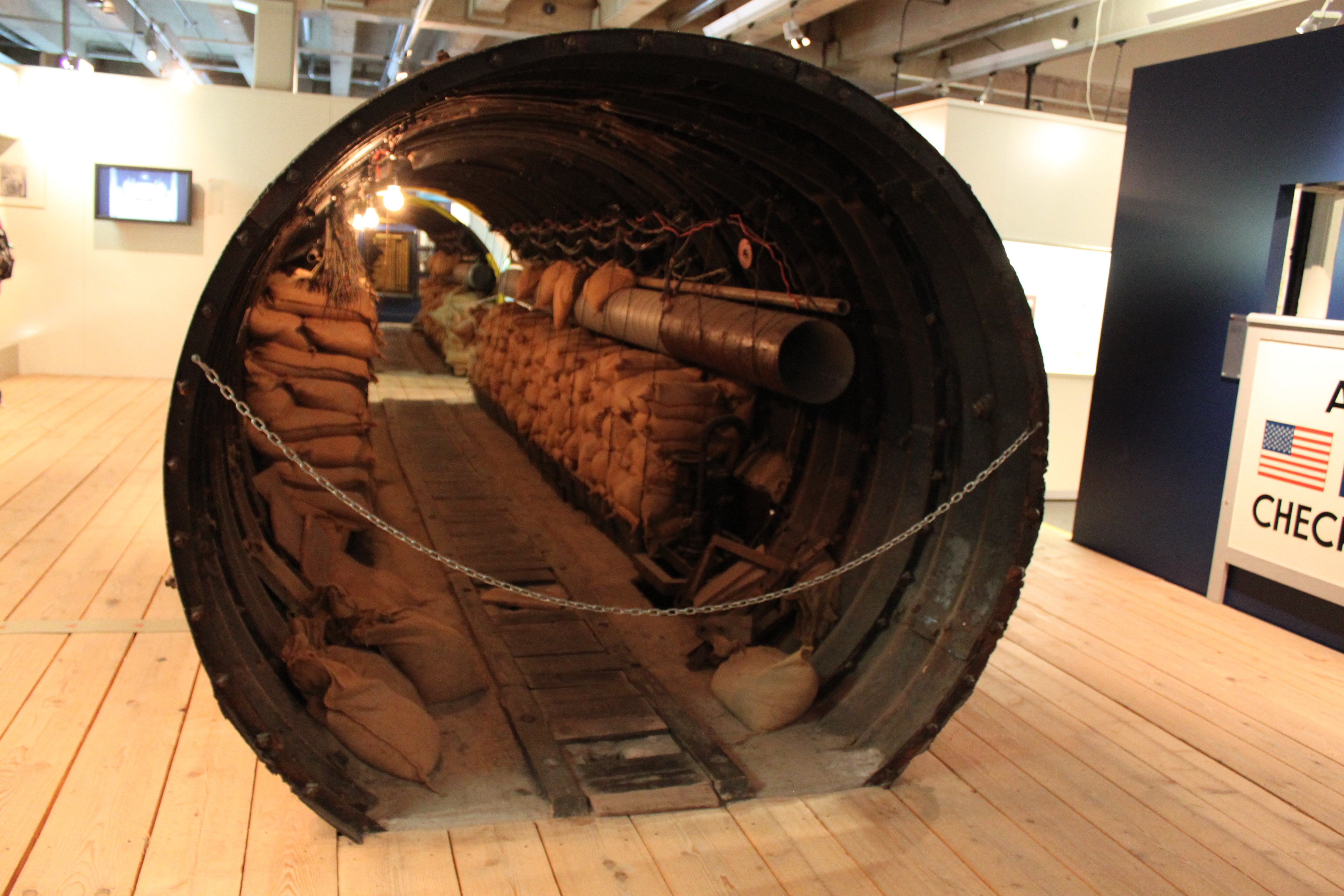 AlliedMuseum Berlin: Berlin Spy Tunnel